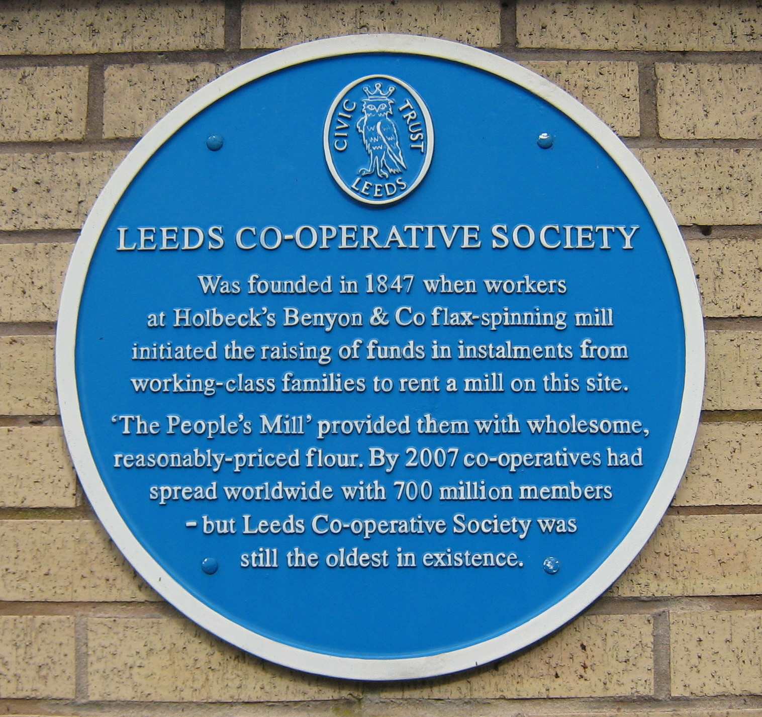 Blue plaque on Marshall Street, by the entrance to Leodis Court, Leeds LS11, Commemorates Leeds Co-operative Society founded 1847 in a mill building formerly on this site